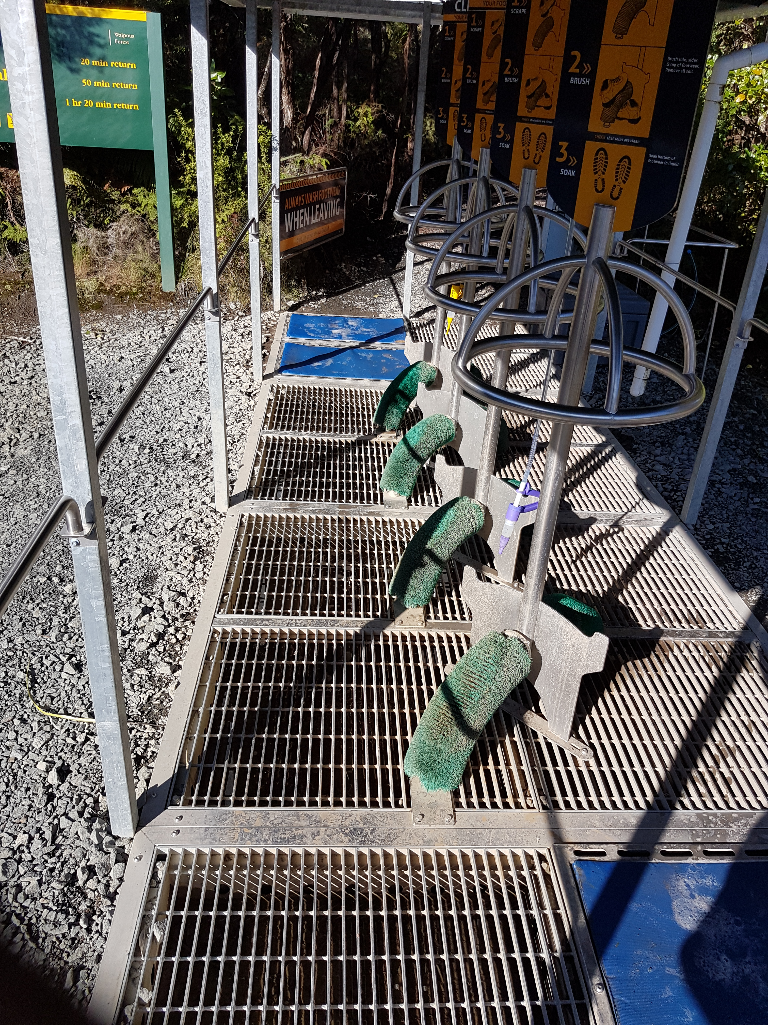 Improved footwear cleaning stations at track entrance to Te Matua Ngahere, Four Sisters and Yakas Kauri, installed 2018